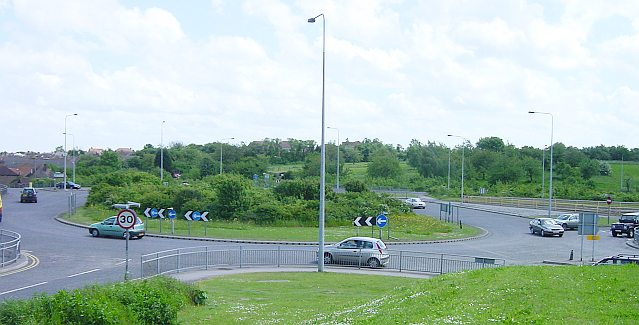 Key Street Roundabout. Junction of the A2 with the A249 Sheppey Way. The A249 goes under the roundabout (and flooded badly soon after opening) with a slip roads up from the north bound carriageway and down onto the south bound. Other travellers must use the next northerly junction.